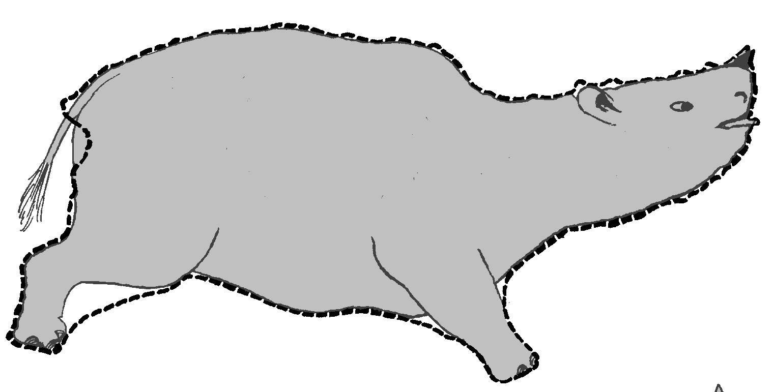 Blue Lake rhino mold, redrawing after: Walter M. Chappell, J. Wyatt Durham und Donald E. Savage: Mold of a rhinoceros in basalt, Lower Grand Coulee, Washington. Bulletin of the Geological Society of America 62, 1951, pp. 907–918 (p. 917)